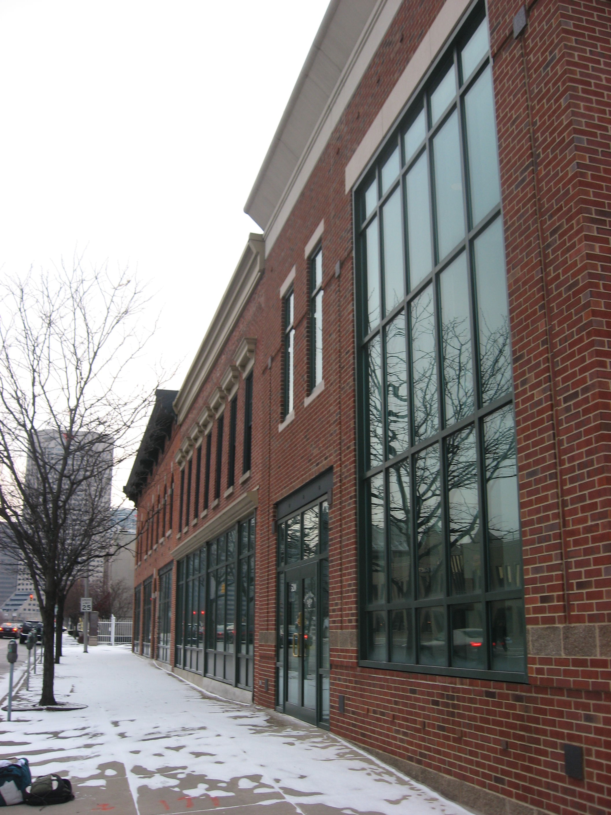 Buildings on the southern side of the 500 block of Indiana Avenue in downtown Indianapolis, Indiana, United States. Built in 1869, the buildings in this block are part of the Indiana Avenue Historic District, a historic district that is listed on the National Register of Historic Places.